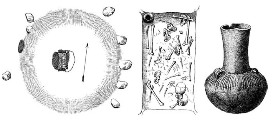 Plan of the dolmen Hjortegårdene and drawing of the burial and the grave goods